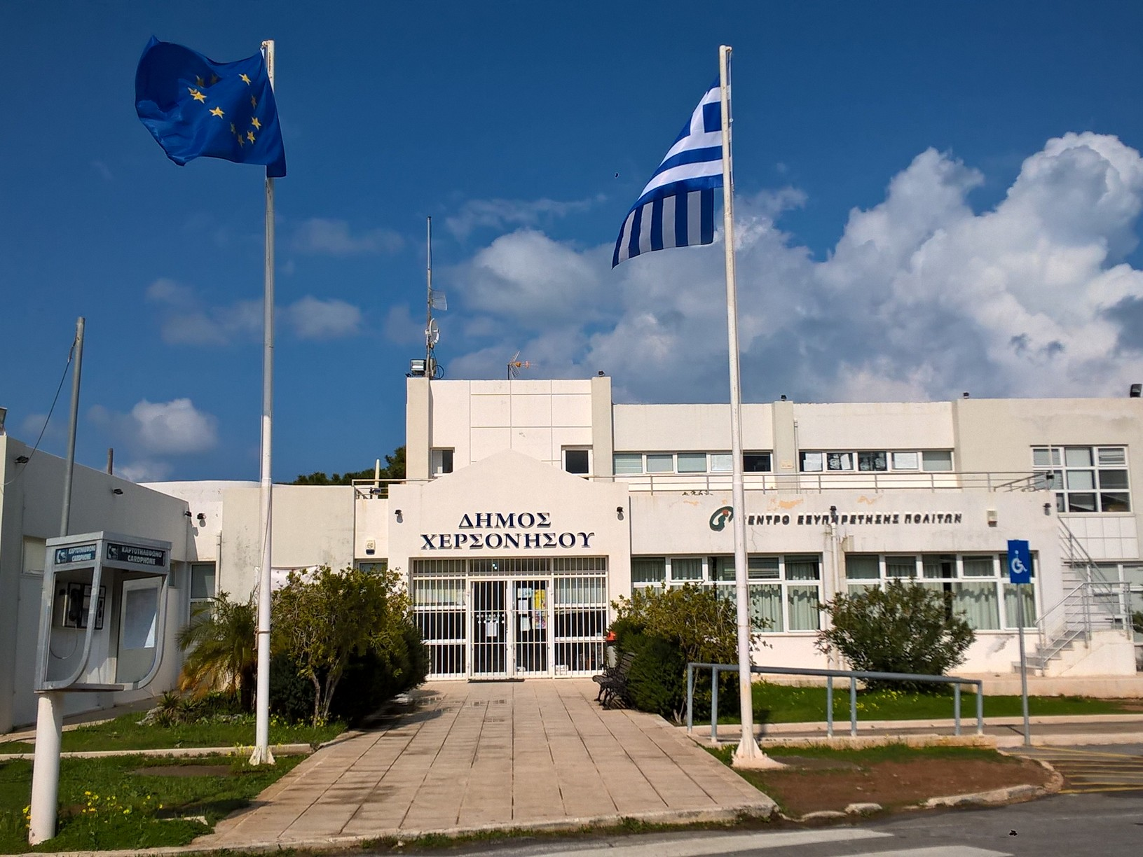 Municipality of Hersonissos Town Hall, at Gournes